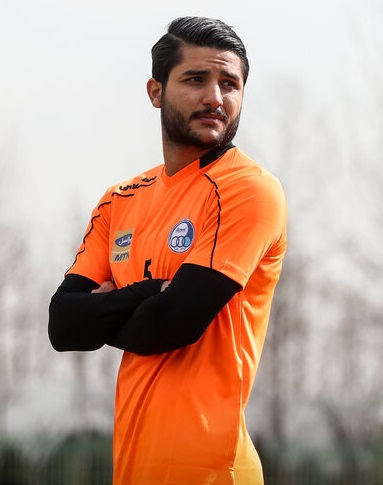 Aref Gholami